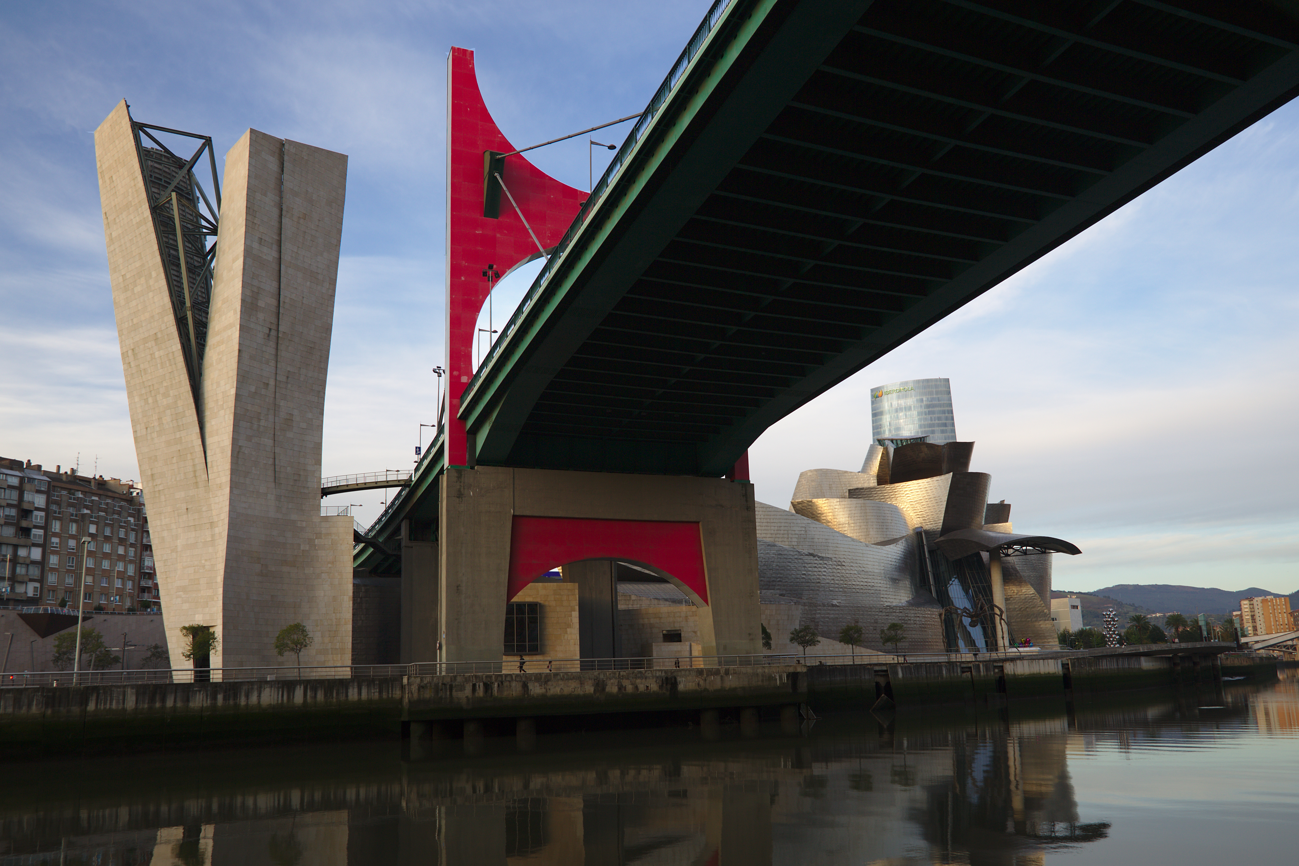 Building in Bilbao